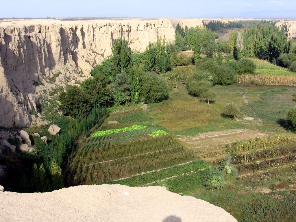 Turfan (Turpan/Tulufan) is an oasis city in the Xinjiang Uygur Autonomous Region of the People's Republic of China. Jiaohe ruins. Sourounding oasis.